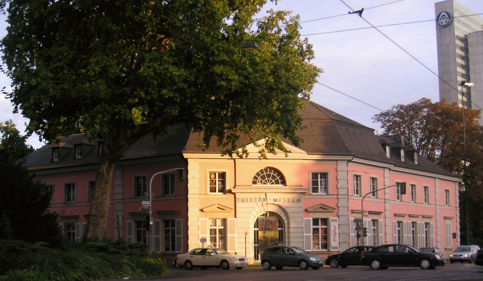 Hofgaertnerhaus Duesseldorf, Germany